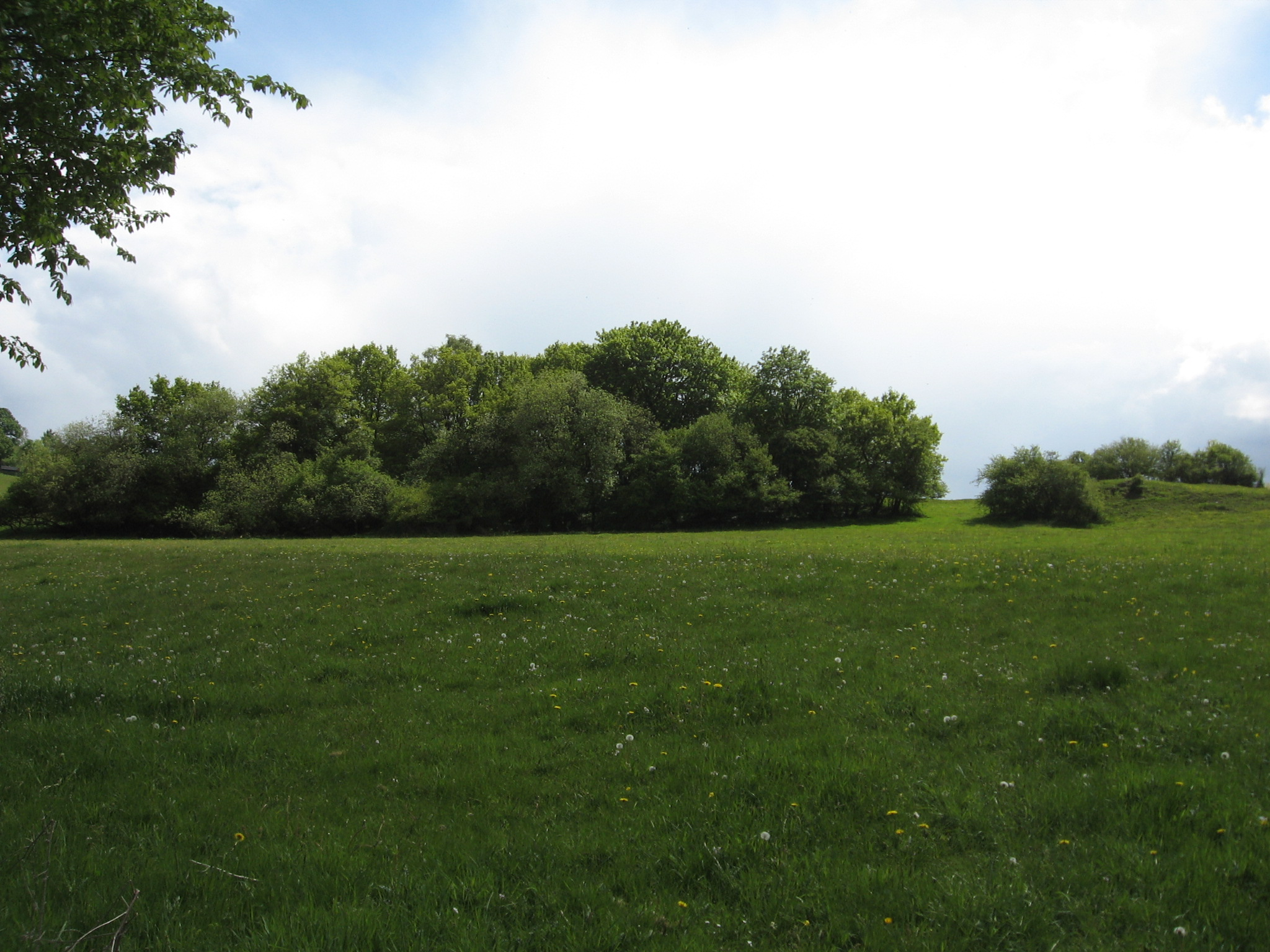 Östlicher Bereich vom Naturschutzgebiet Niedermühle mit Grünland und Feldgehölz; Brilon.